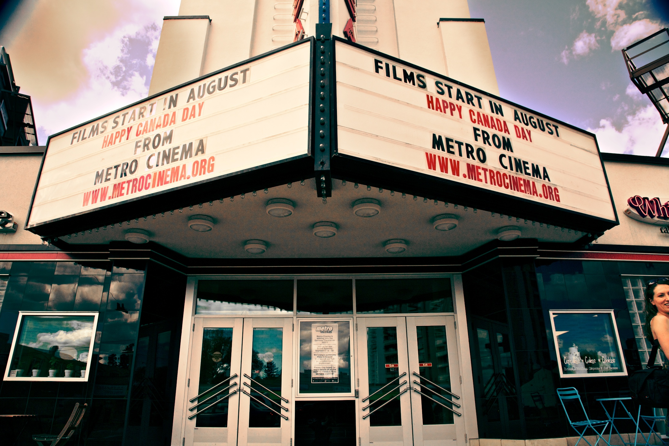 The new location of the excellent Edmonton Metro Cinema. Please don't ask me how far I had to back into car traffic to get this shot.